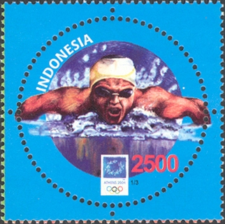 Stamps of Indonesia